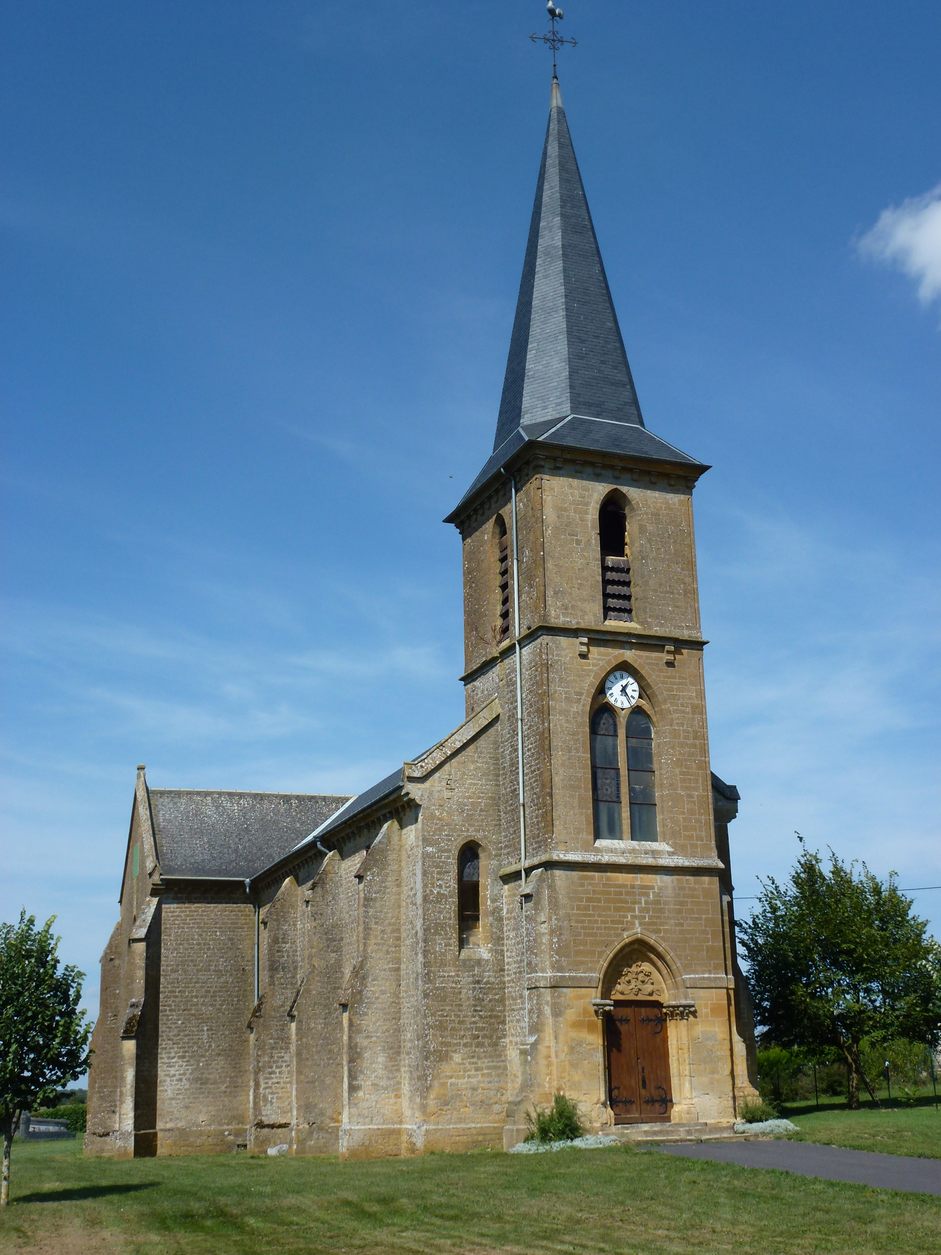 Villers-le-Tilleul (Ardennes) église